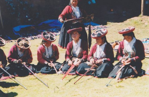 Weaving girls in Peru